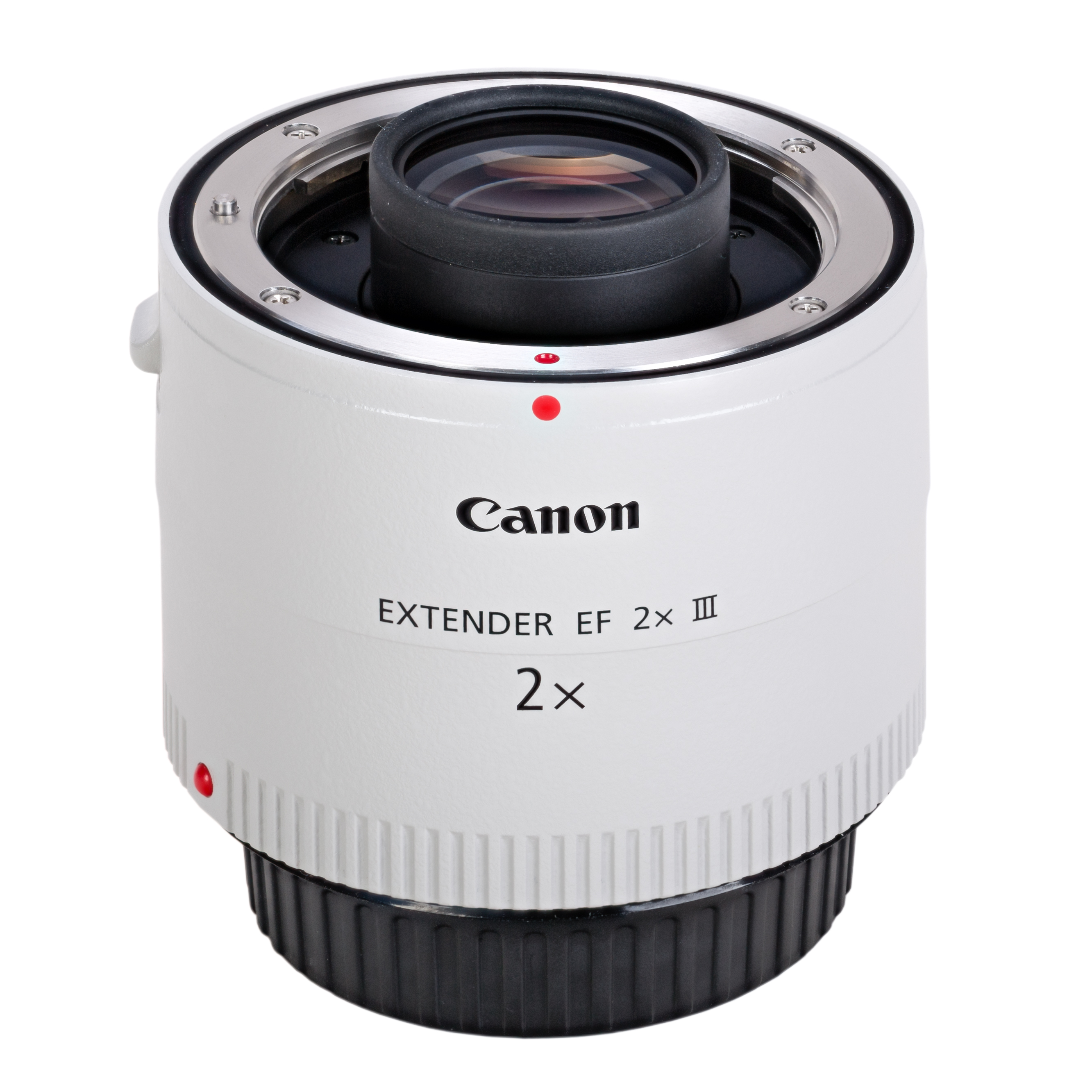 Canon Extender EF 2x III (version without shadow)Focus stacking of 11 pictures.